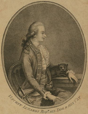 Half-length portrait of Italian balloonist Vincenzo Lunardi.